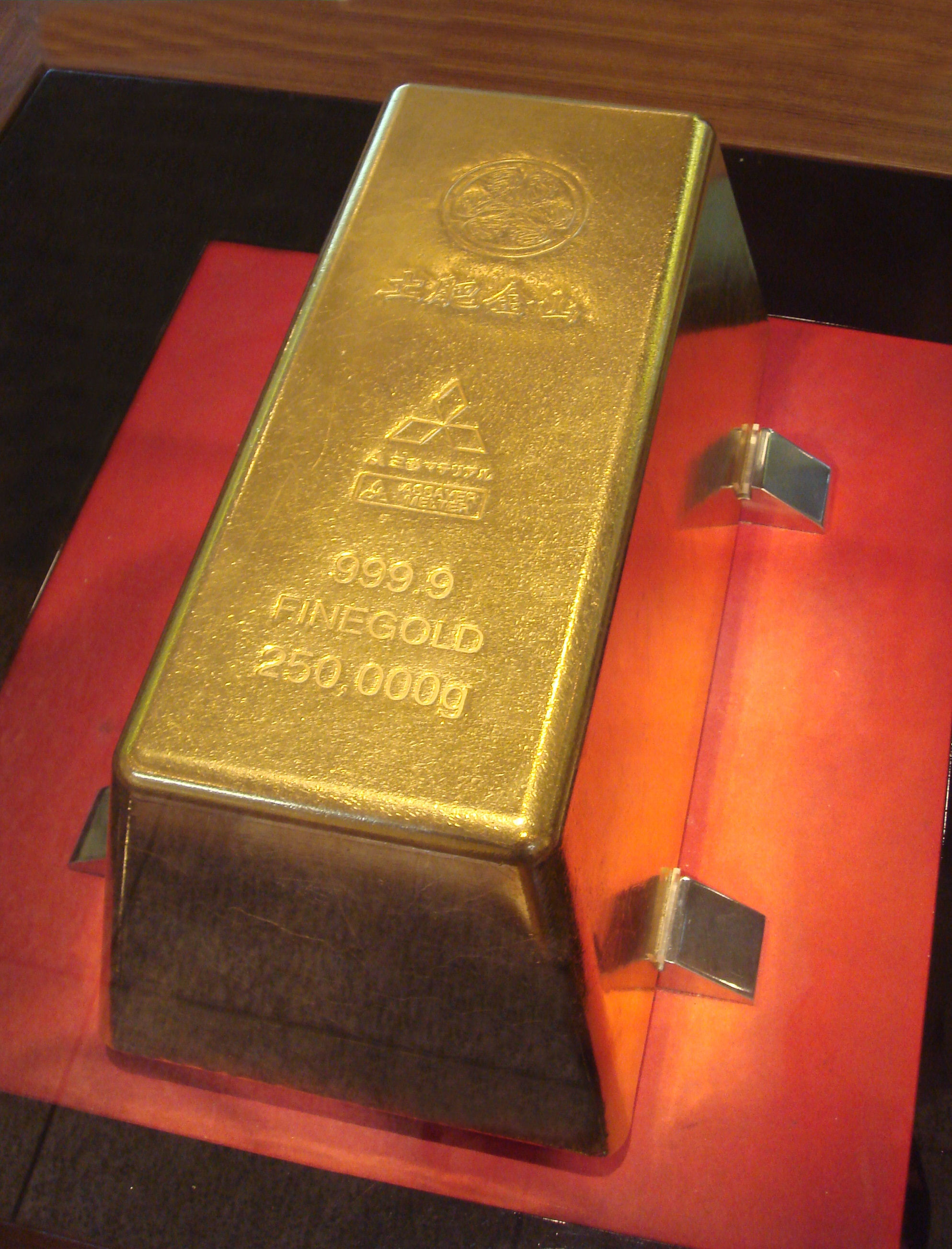 A 250,000gram gold bar in the Toi gold mine